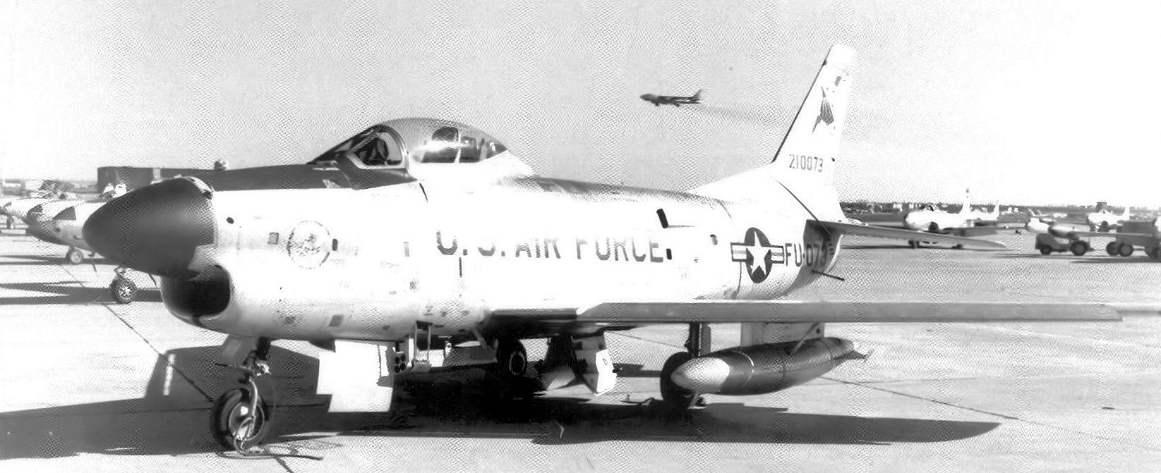 42d Fighter-Interceptor Squadron North American F-86L-50-NA Sabre 52-10073 54th Fighter-Interceptor Group, Greater Pittsburgh Airport, Pennsylvania, 1957